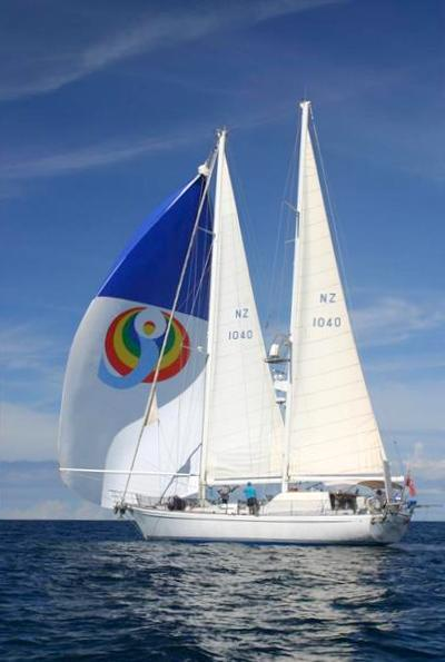 Photograph of the C&C Custom 67 Schooner 'Archangel', a Canadian sailboat that was designed by Cuthbertson & Cassian and was launched in September, 1980.